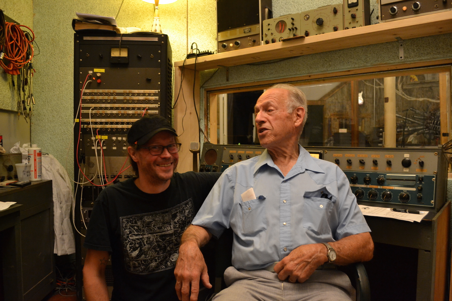 Al Hawkes sits next to audio engineer Todd Hutchisen surrounded by his old recording equipment used at Event Records. The equipment moved to Acadia Recording Company in 2013.